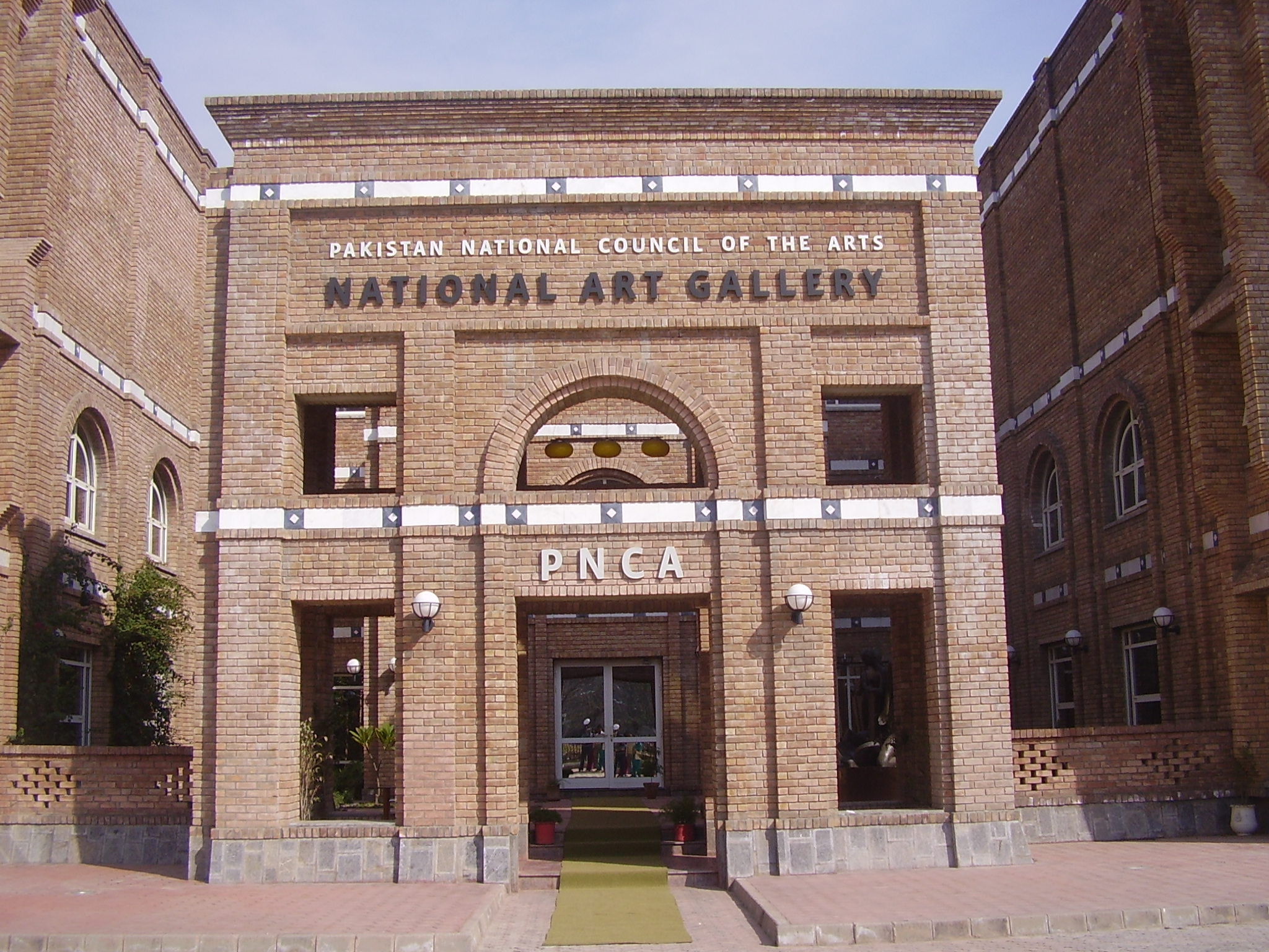 Main front entrance gate of the National Art Gallery, in Islamabad, Pakistan.